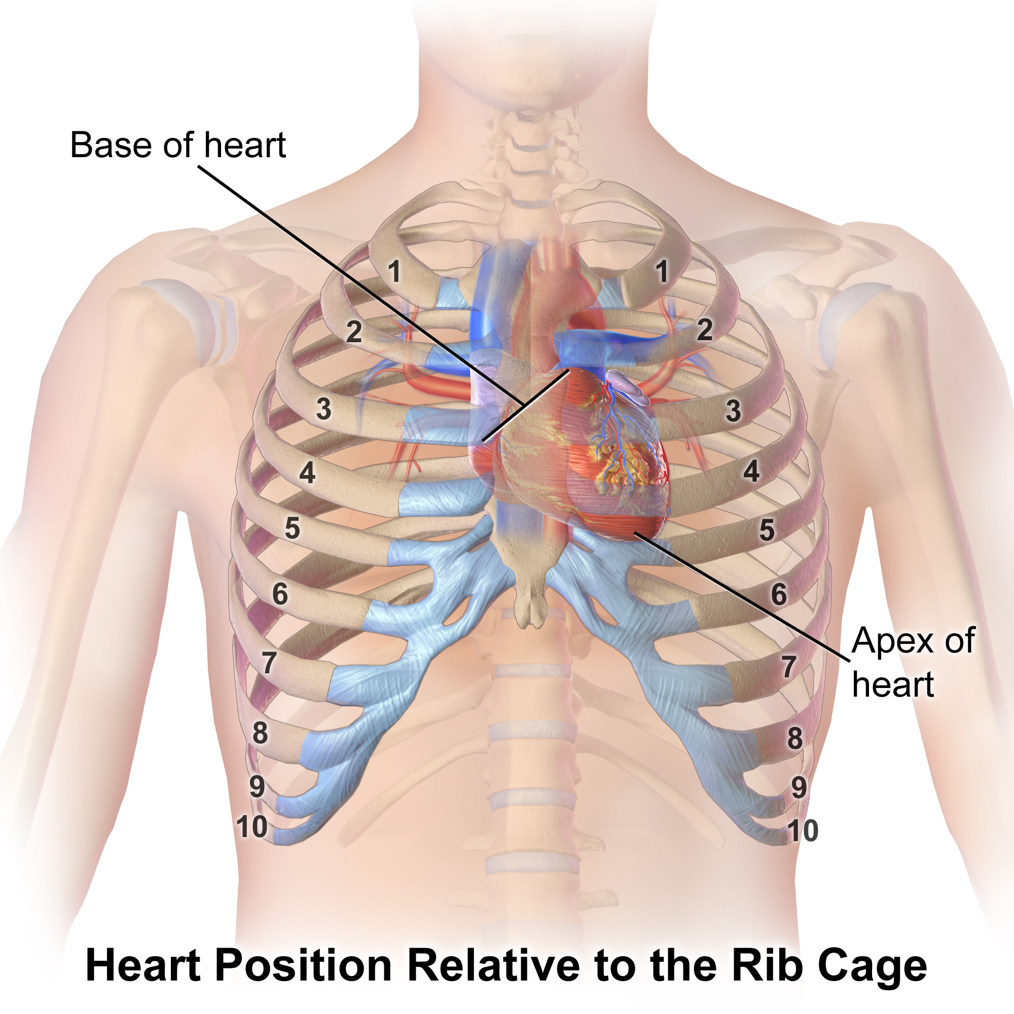 Heart Position Relative to Ribcage. See a related animation of this medical topic.